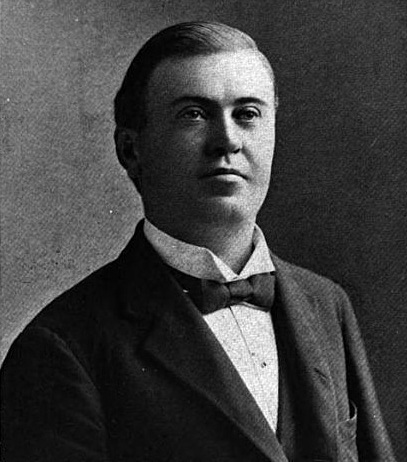 Thomas Cusack (Illinois Congressman)